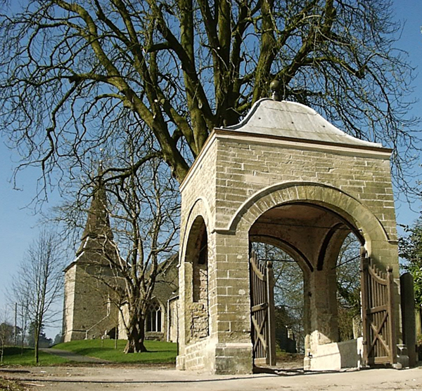 Lychgate of St Mary's parish church, Kington, Herefordshire. Taken from my front door.